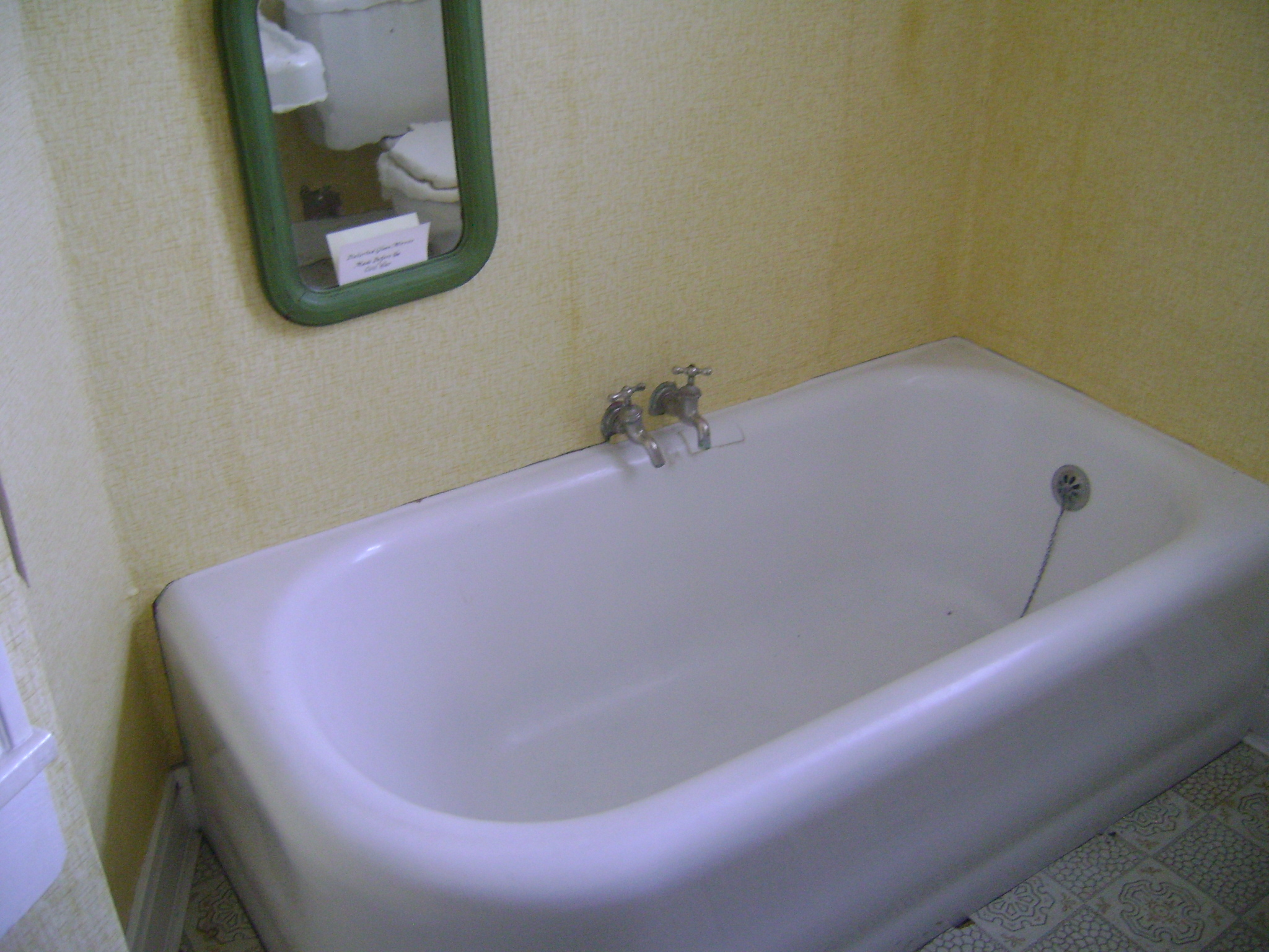 Lathers bathroom at their historic home in Mears